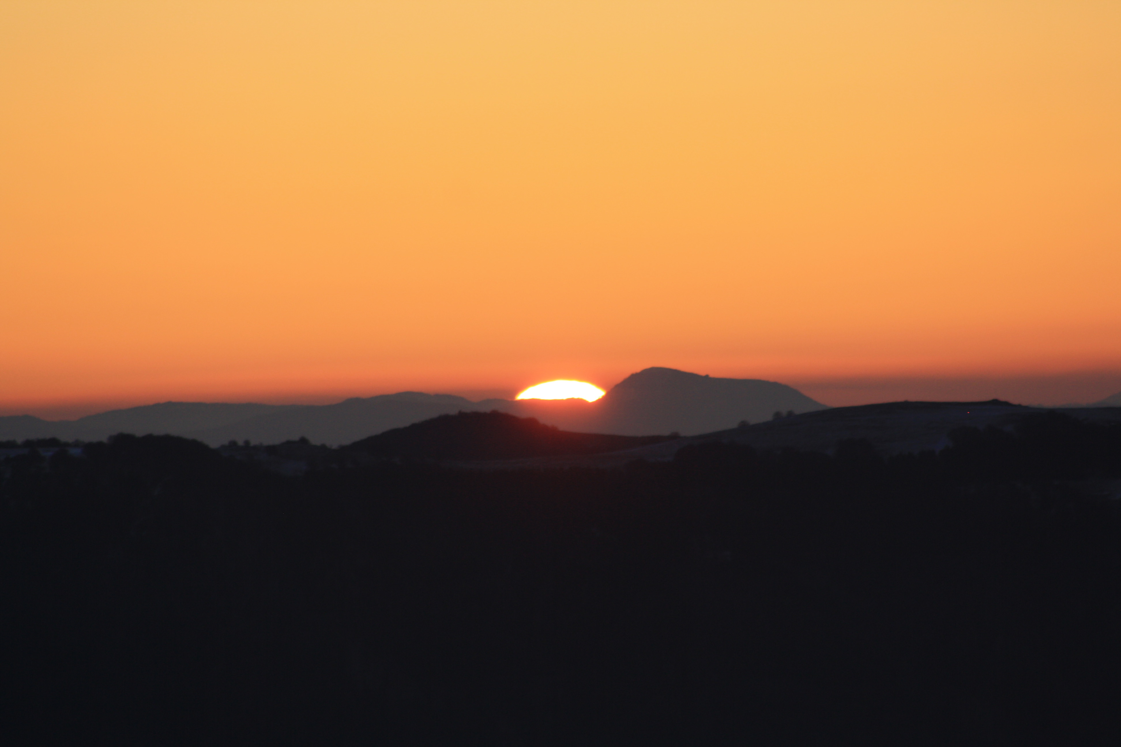 Sunrise in Belchen system - the sun is behind the mountain "Schwarzwälder Belchen", a mountain of the Black Forest in Germany. The picture was taken from the mountain "Elsässer Belchen", a mountain in the Vosges in France, on 20 March 2019, when day and night had the same duration (equinox).